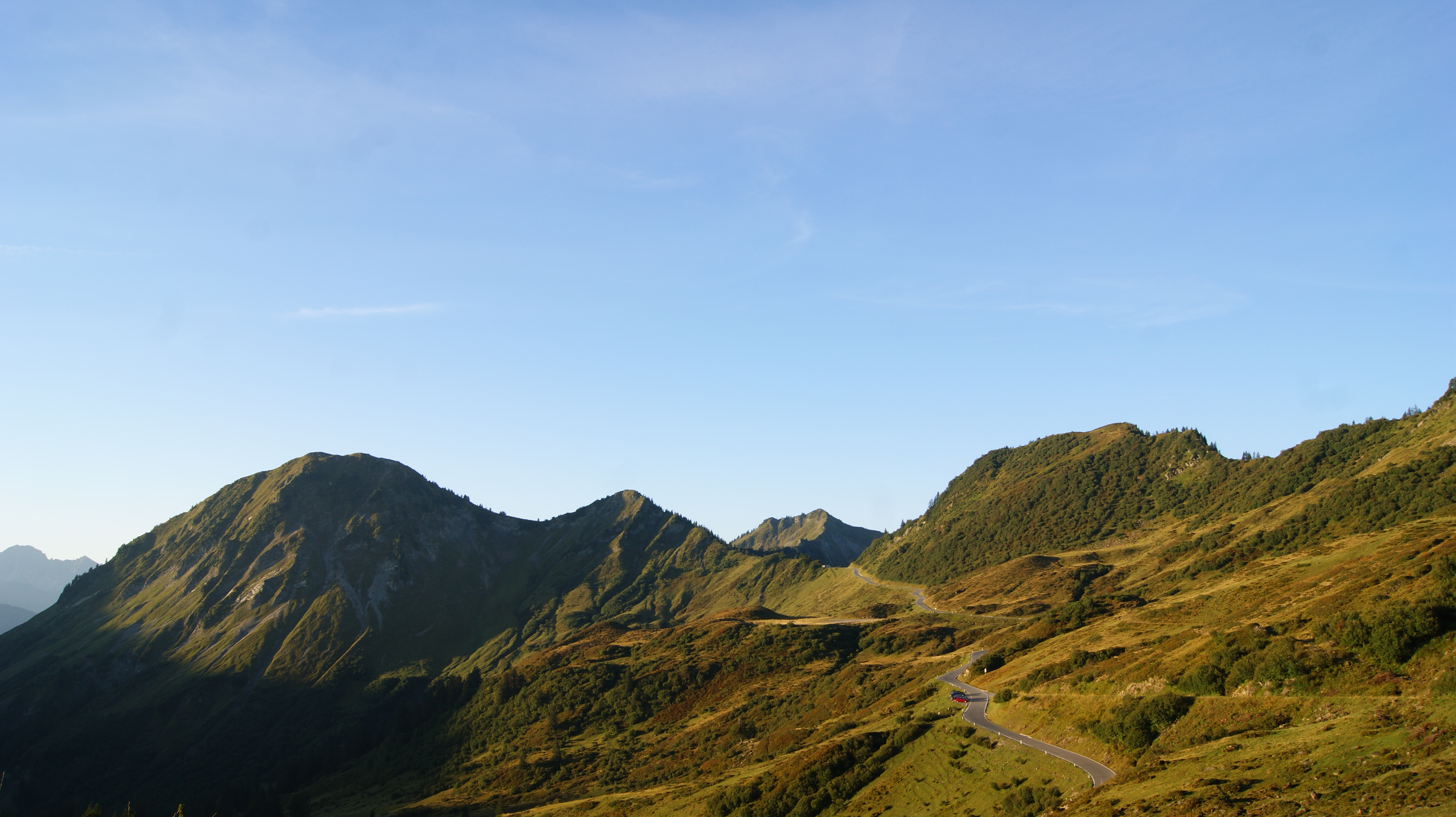 Furkajoch (Meaning: ridge / pass), Laterns, Vorarlberg, Austria. On the left side the Serapitze (also Furkakopf, 1904 masl) and then higher the Pfrondhorn (also: Sernerfalba, 1949 masl). Behind it in the center the Löffelspitze (meaning: spoon tip, 1962 masl) and on the right the "Bettlerjoechli".